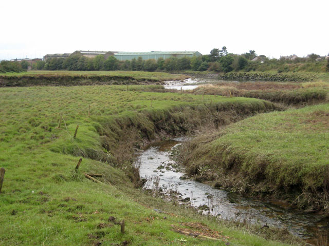 Tidal creek and the Annan estuary Various industrial buildings at Newbie can be seen in the distance.